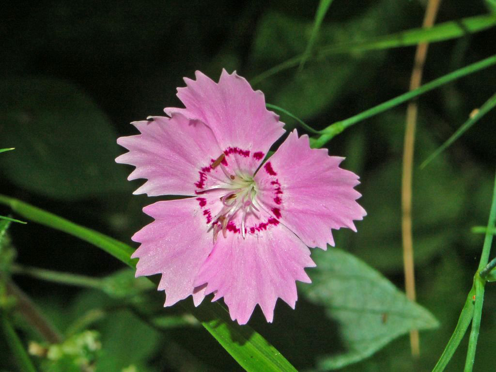 Dianthus seguieri - Varazze, Genova, Italy